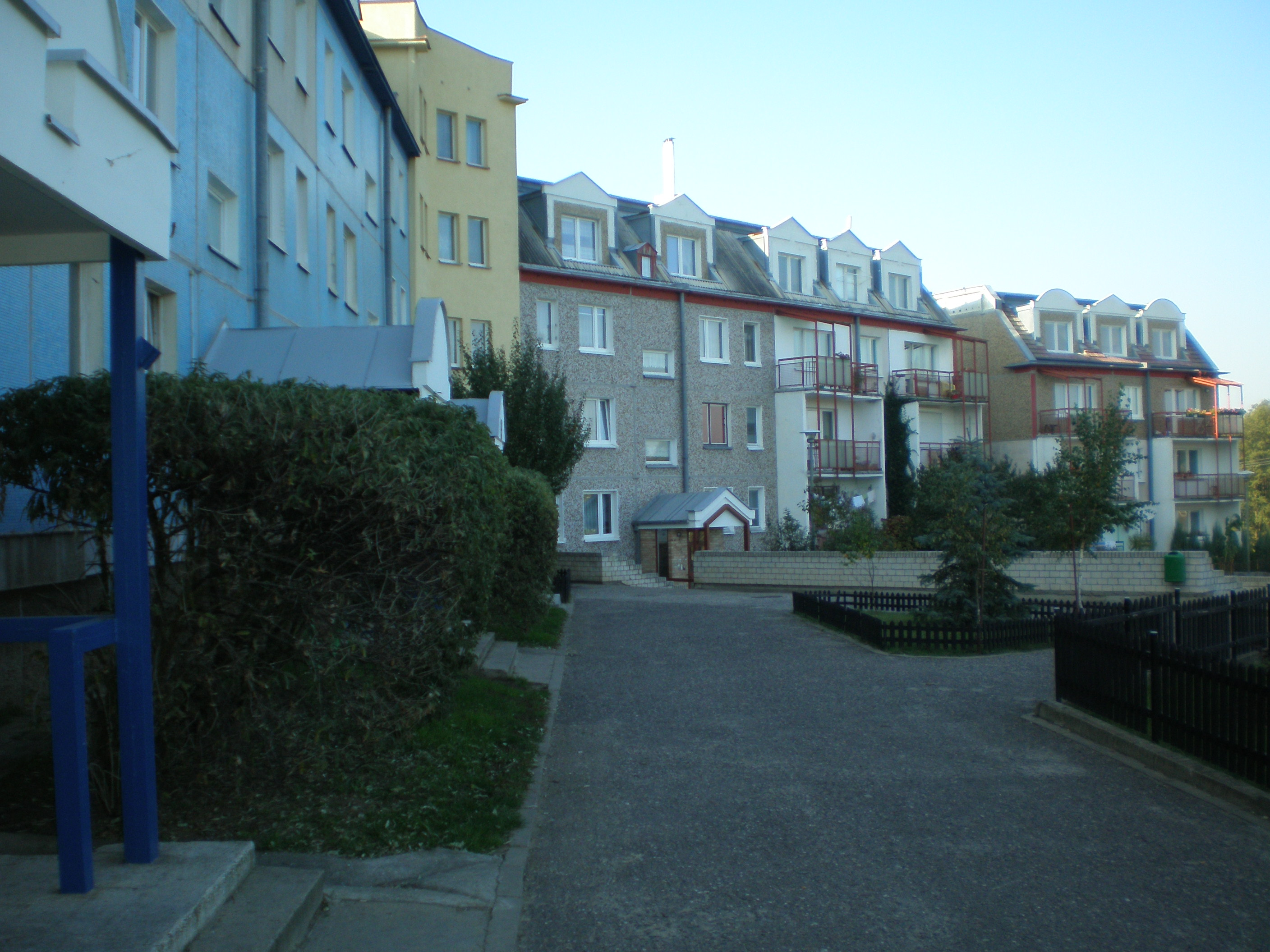 Murowana Goślina town.